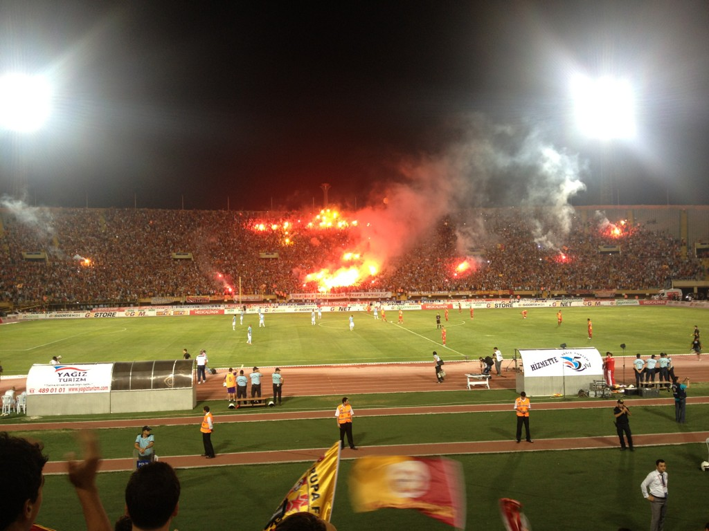 Lazio - GS match